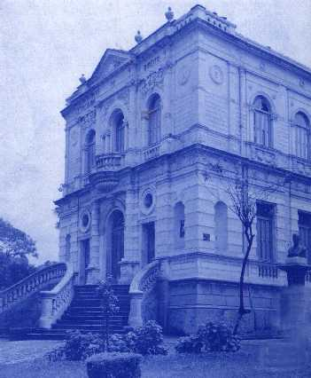 Prédio demolido em 1958.